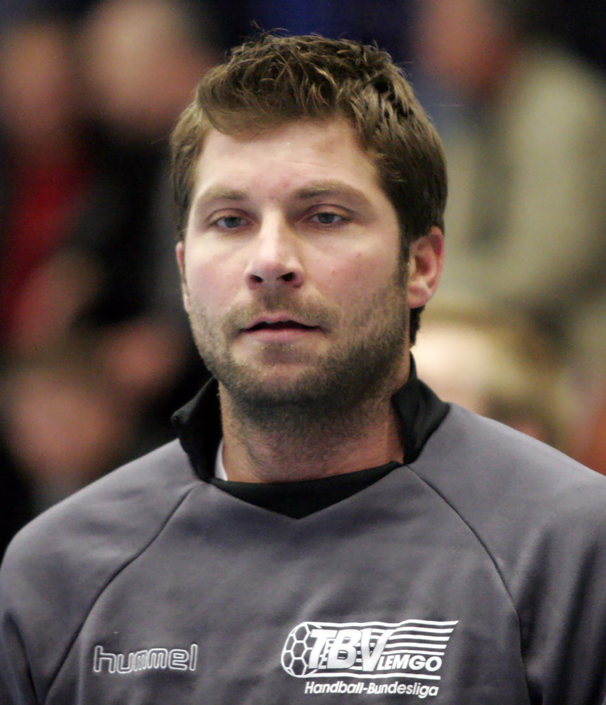 Daniel Stephan, handball player of the handball club TBV Lemgo (Germany), in the Lipperlandhalle prior the game TBV vers. Wilhelmshavener HV on October 13th, 2007